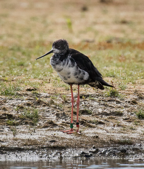 Black Stilt juv - South Island - New Zealand_FJ0A4854